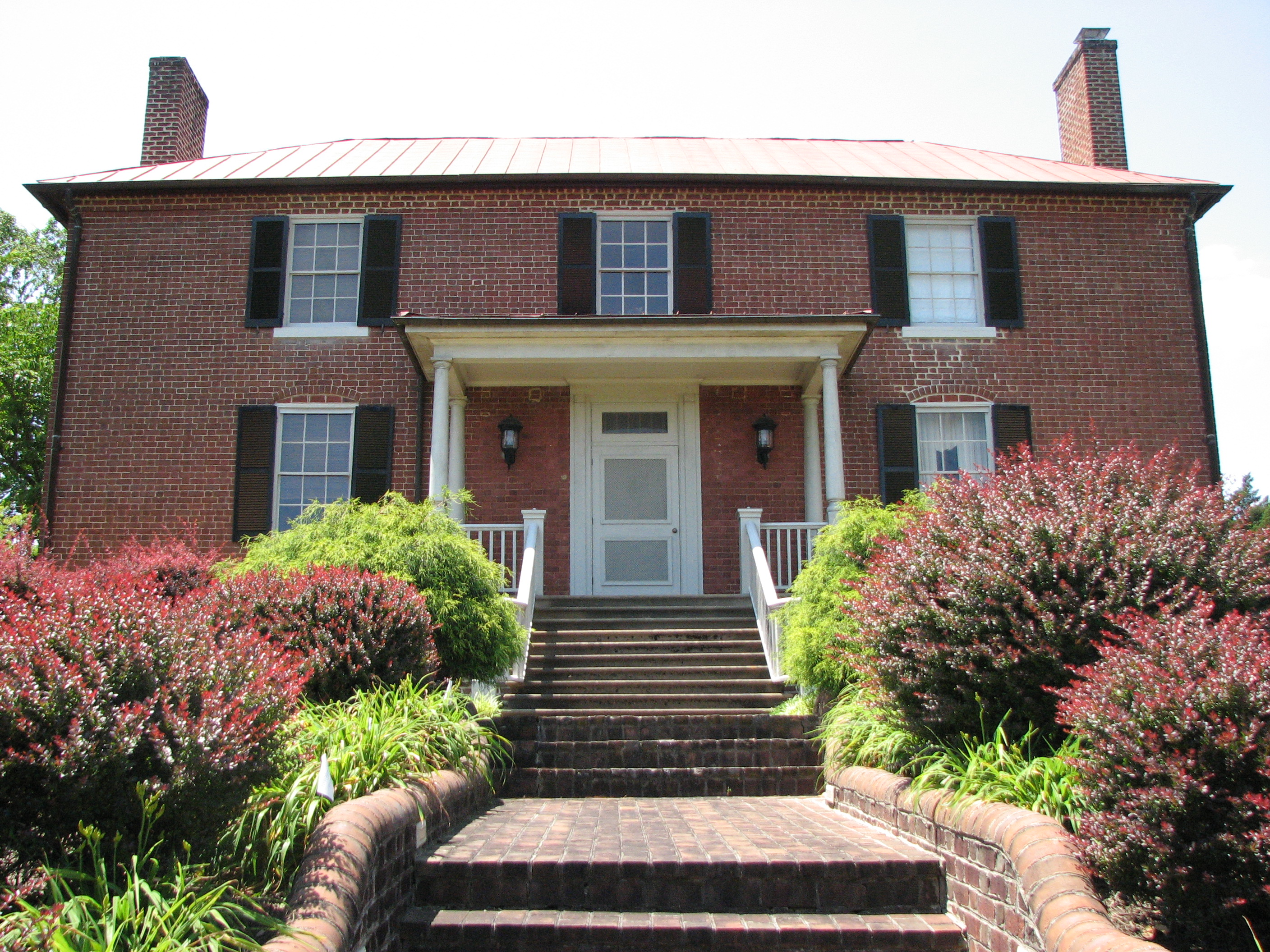 Plantation home listed on the National Register of Historic Places - Spotsylvania County, Virginia